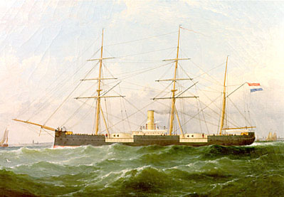 Dutch Ironclad Prins Hendrik der Nederlanden, arriving in the Netherlands from its builders, Lairds of Birkenhead, in 1867.